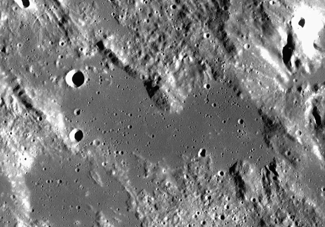 Lacus Odii on the Moon. Mosaic of photos by Lunar Reconnaissance Orbiter, made with Wide Angle Camera. Size of the image is 100×70 km, north is up.